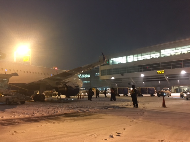 New York-JFK